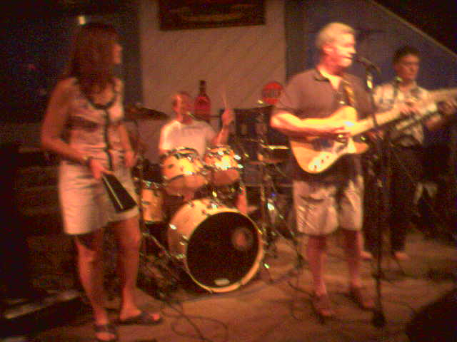 The Congressional band, Second Amendments. From left to right: Rep. Melissa Hart on the cowbell, Kenny Hulshof singing and playing drums, Jon Porter on lead guitar, and Dave Weldon on bass.